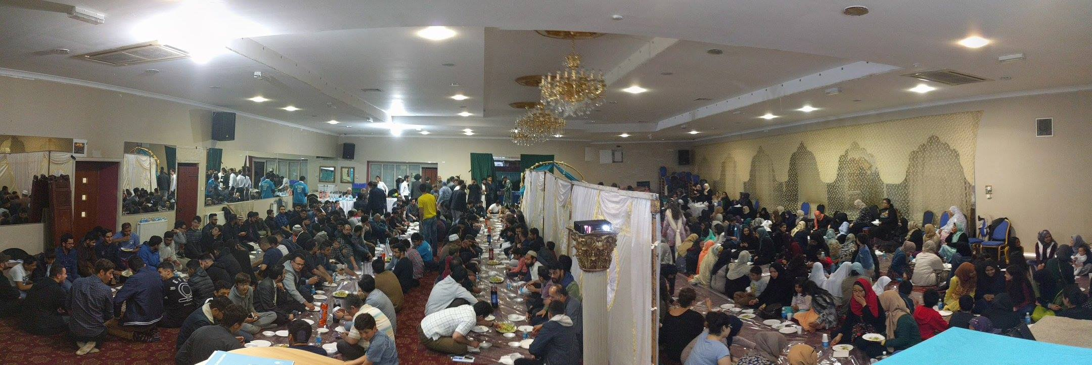 GUMSA Annual 'Iftaar' 2017 - held at kabana function suite in Glasgow. The event was attend by up to 400 people